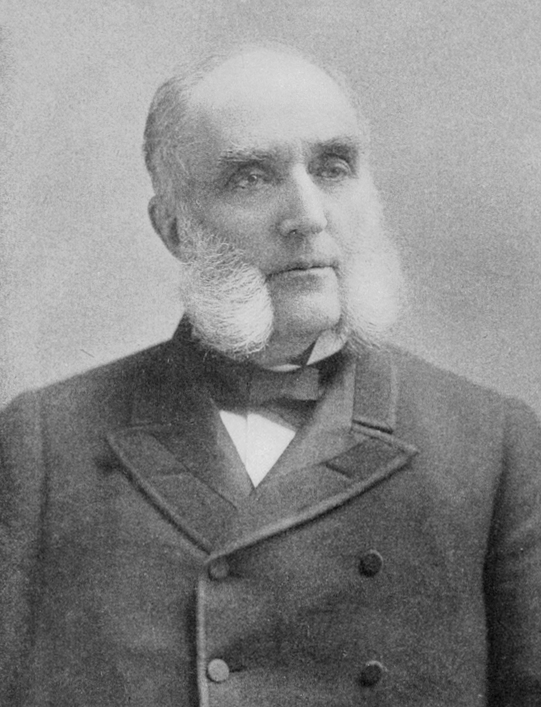 James J. Belden, Congressman from New York